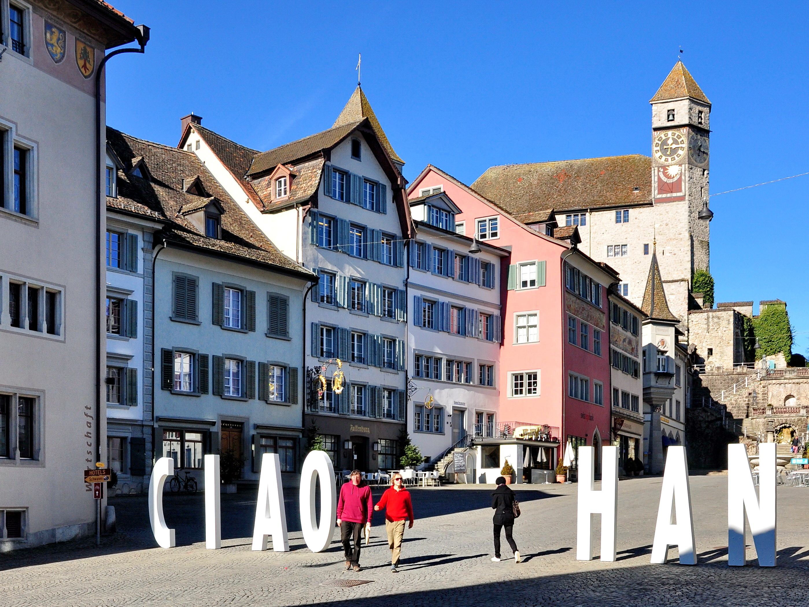 Rapperswil (Switzerland) : Rapperswil castle's Zeitturm as seen from Hauptplatz, Rathaus to the left.